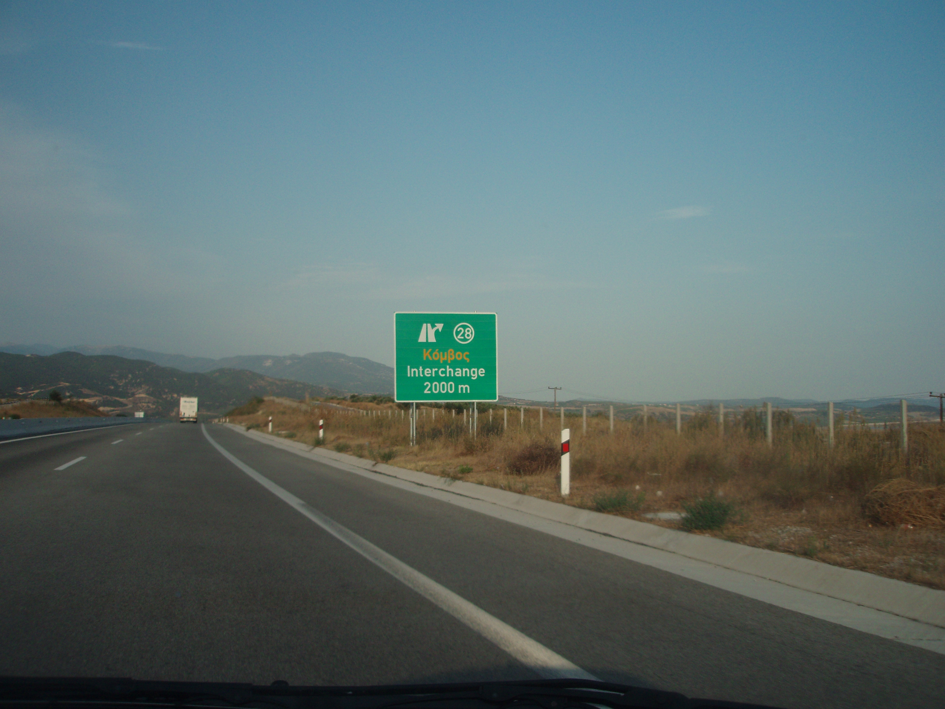 A2 motorway (Egnatia Odos) in Greece. Sign showing next interchange (exit) in 2,000 m distance. Sign located at section Asprovalta-Strymonas, signalling Strymonas interchange.